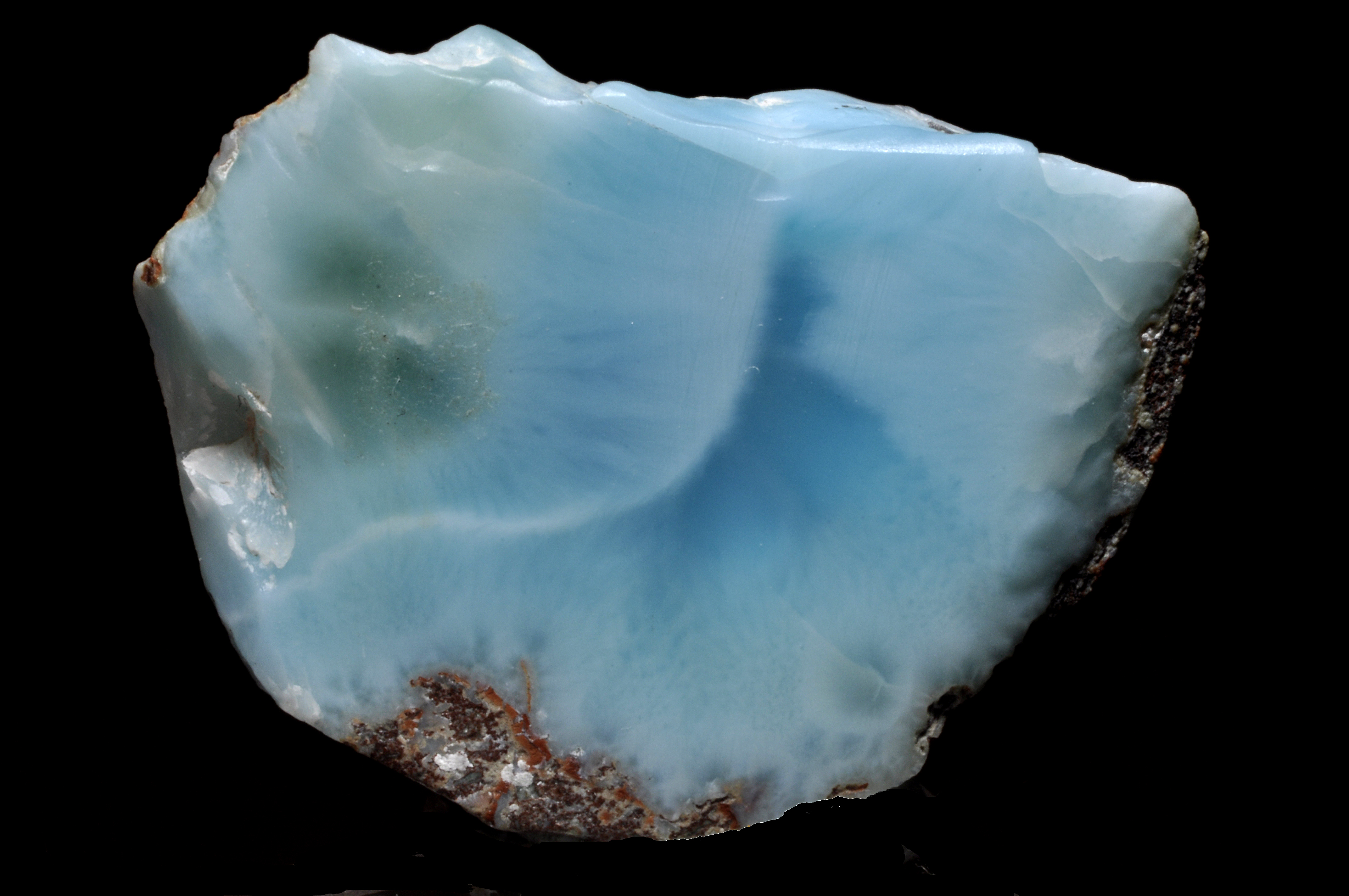 Larimar